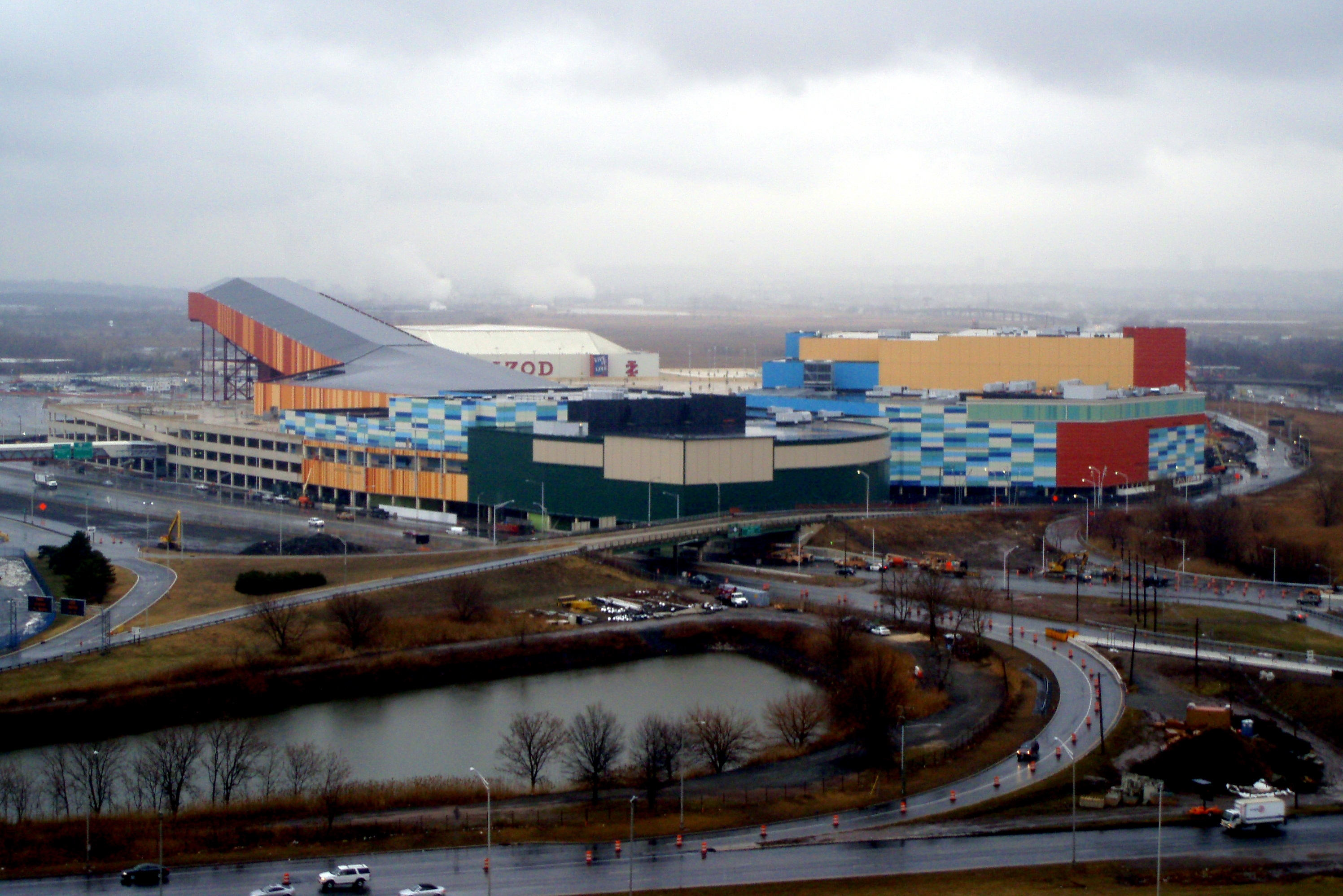 Xanadu Meadowlands mall & indoor ski slope — as seen from the roof of the Hilton Meadowlands, in New Jersey. New Jersey State Route 3 and State Route 120.